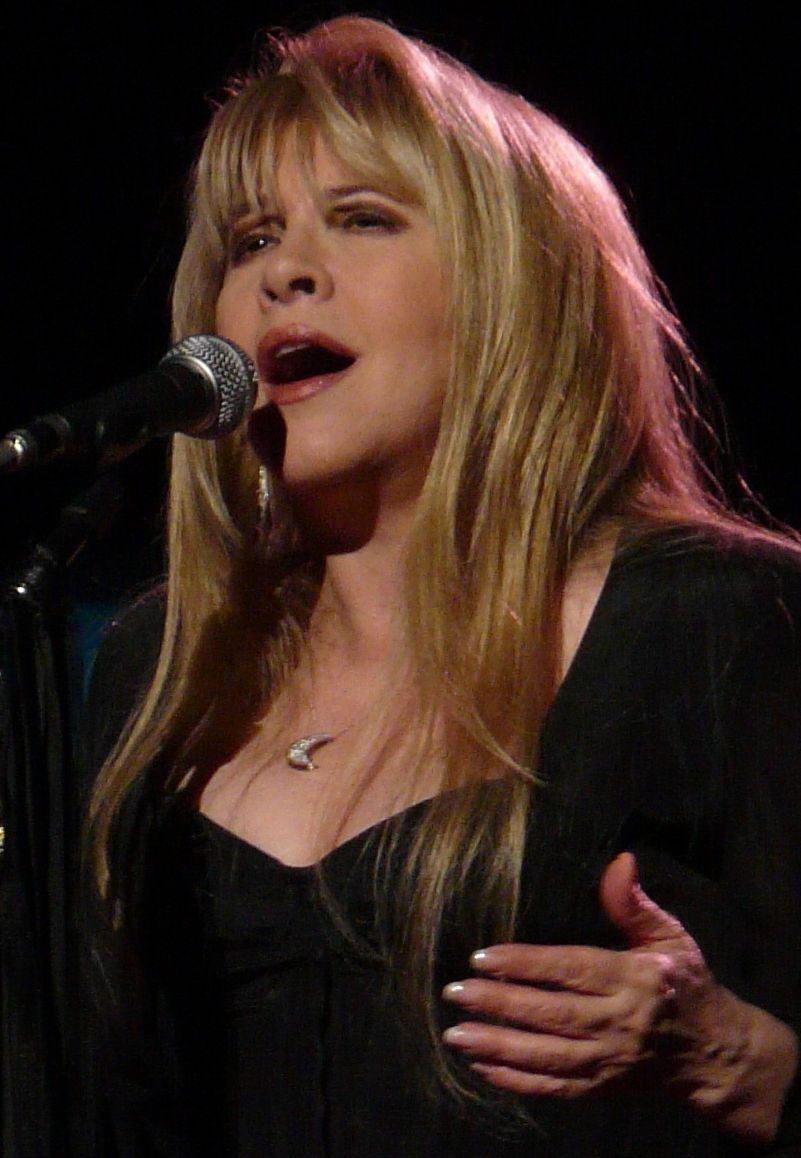 Stevie Nicks, Live with Fleetwood Mac on March 3, 2009 in St. Paul, MN at the Xcel Energy Center. Photo by Matt Becker